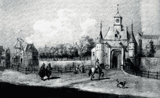 The old city gate Delftsche poort in Rotterdam (The Netherlands) in 1670